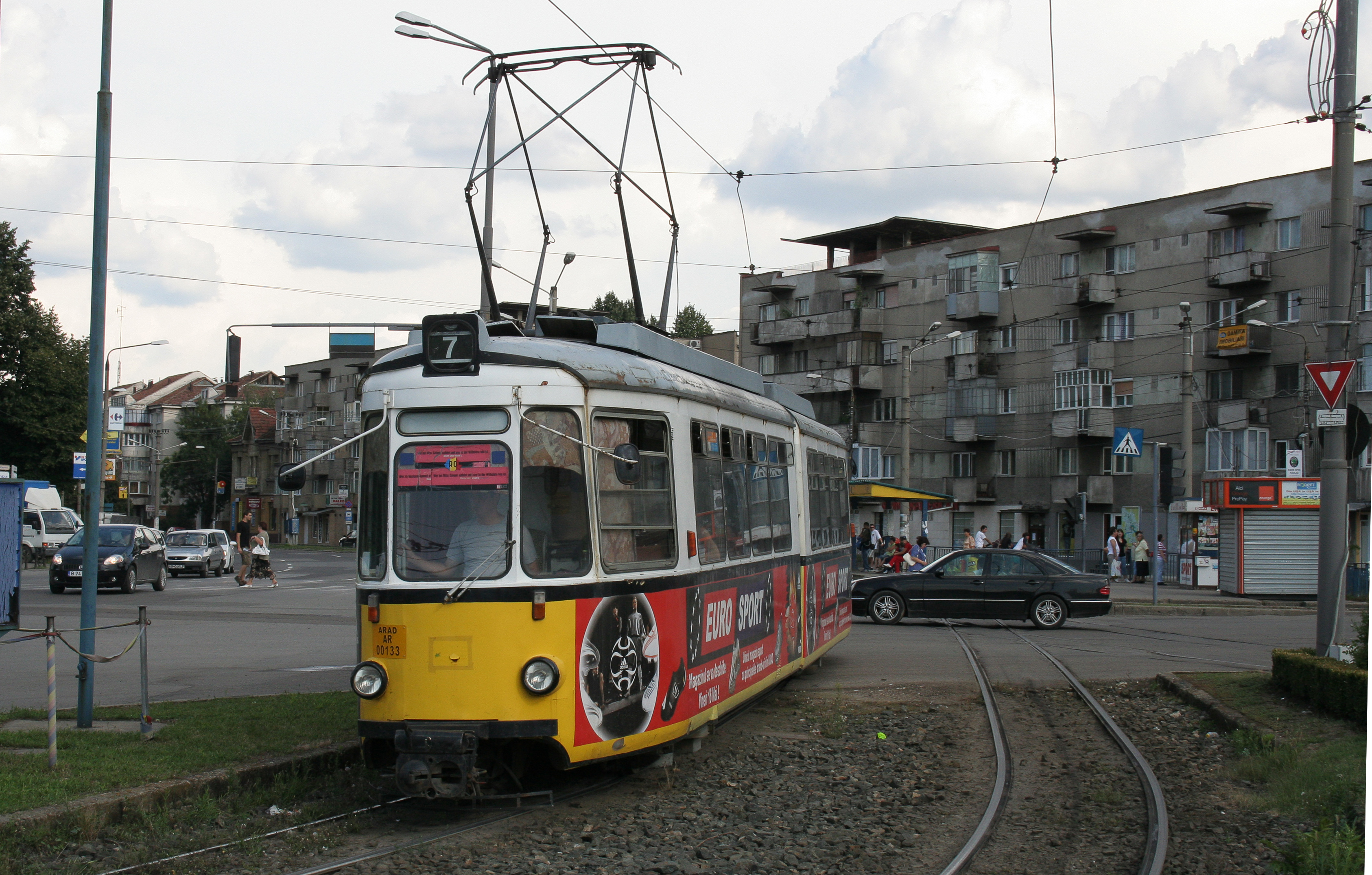 GT4-tram ex Stuttgart in Arad